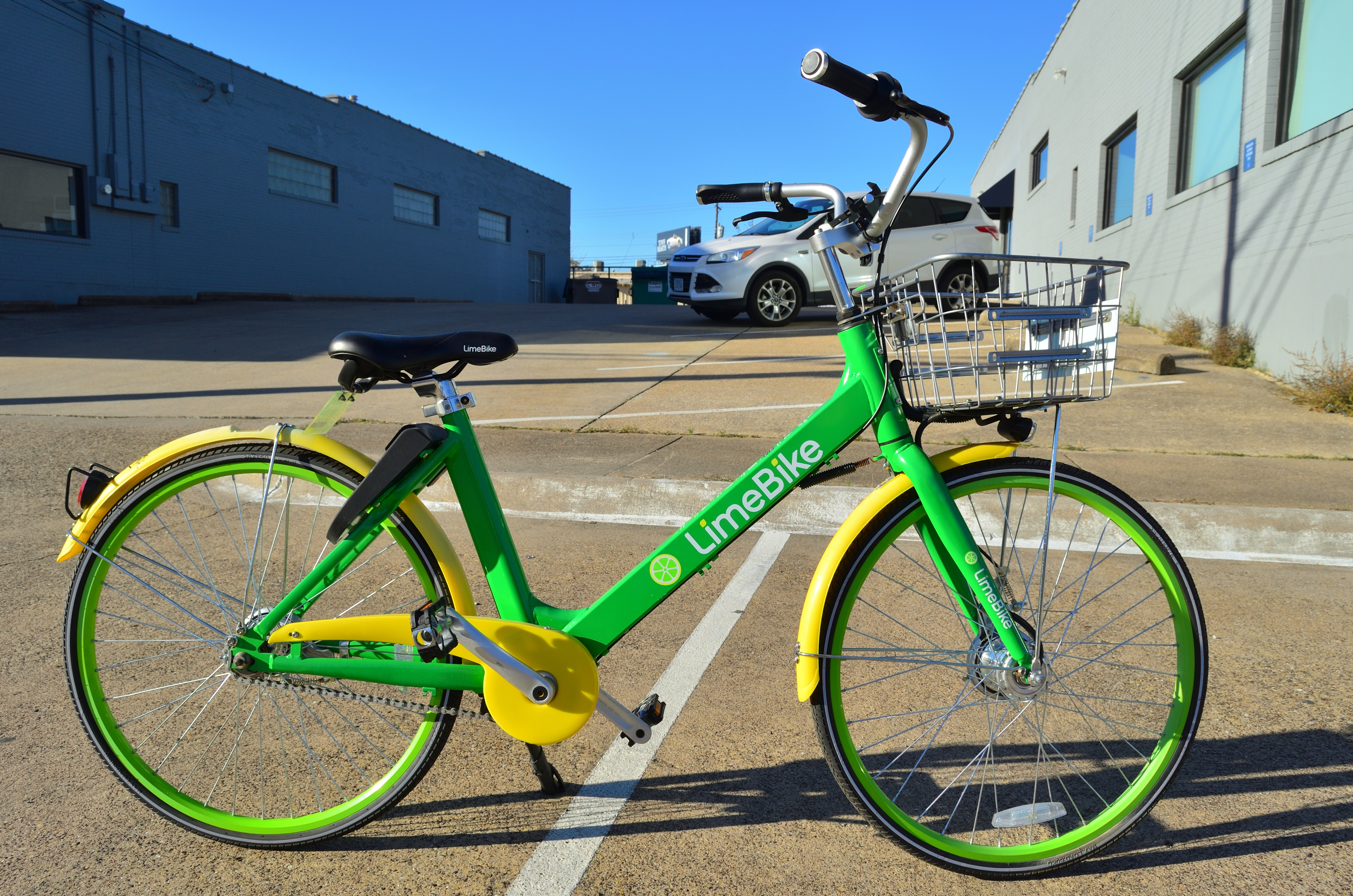 A Lime bike in Dragon Street, Dallas